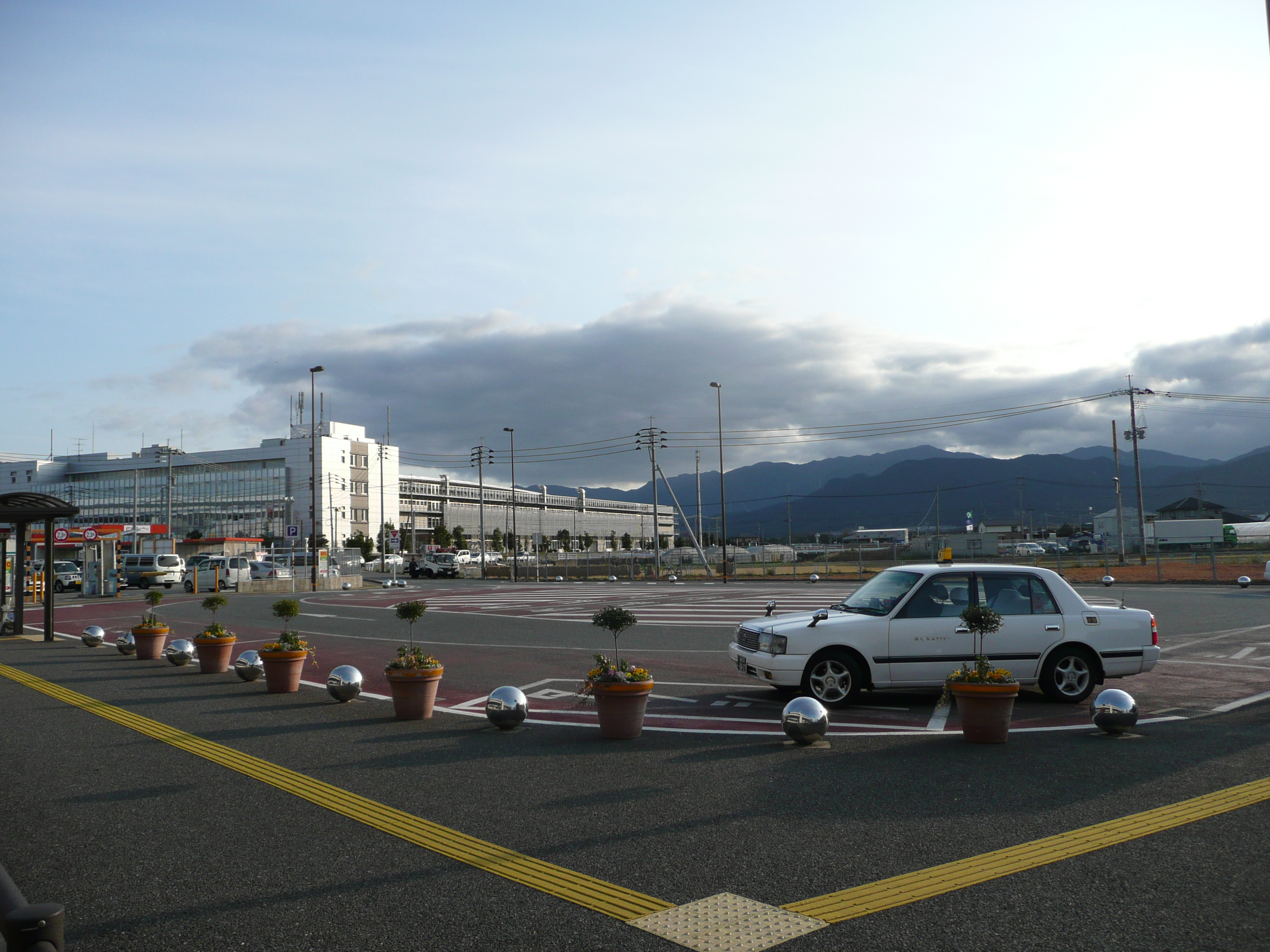 橋本駅の駅前ロータリー